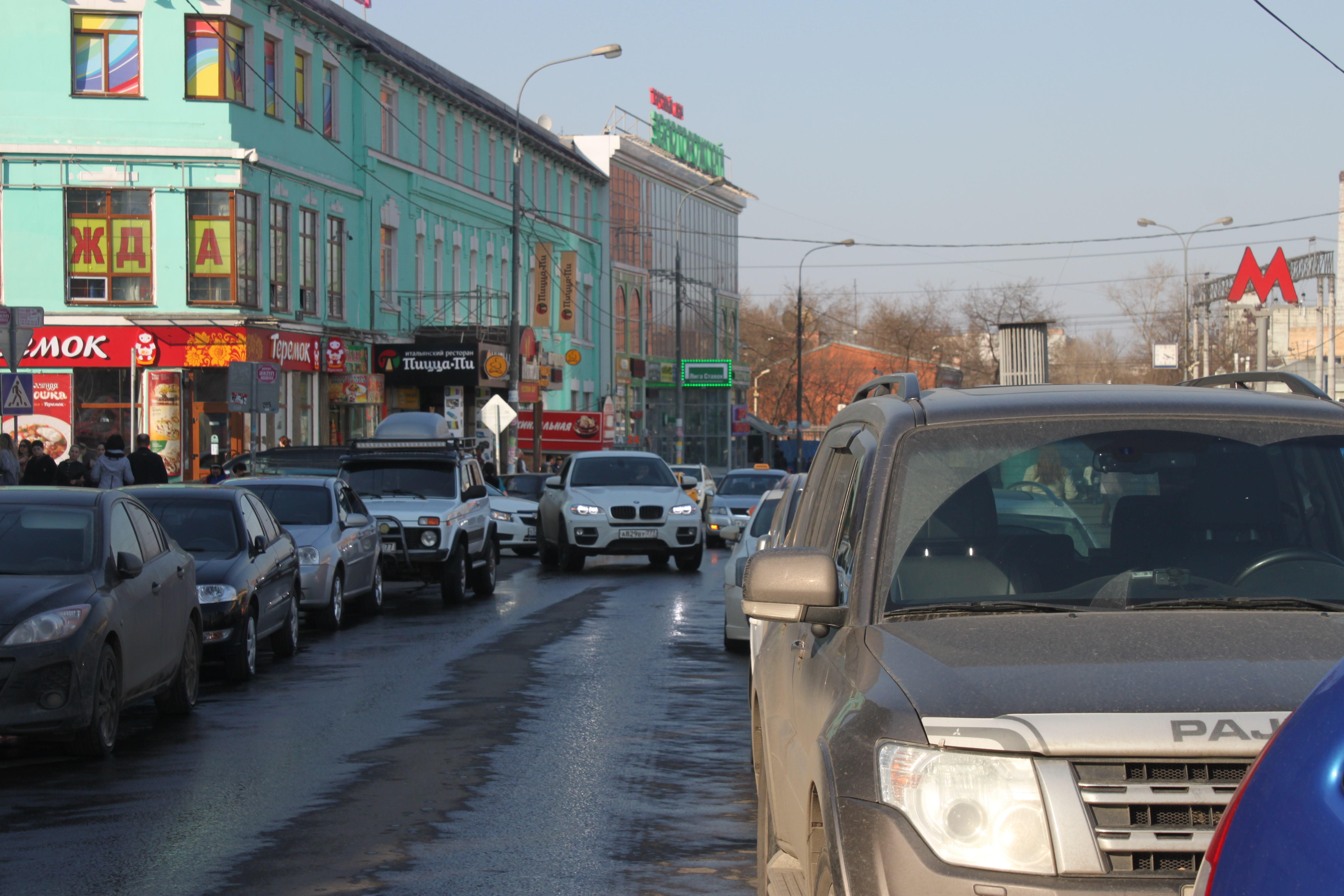 Gzhel lane.